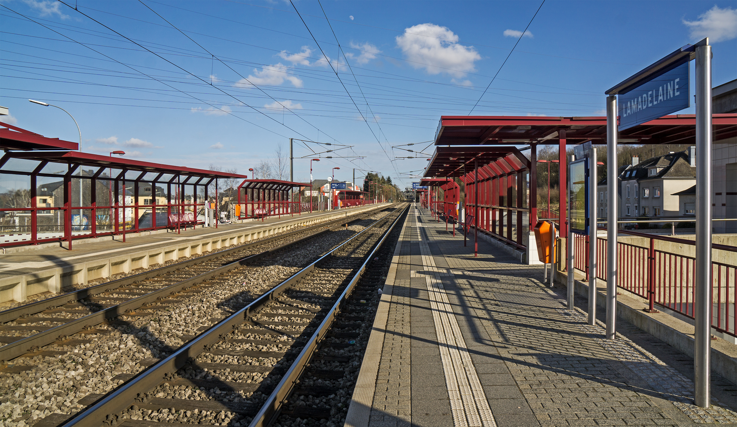 Lamadelaine train station